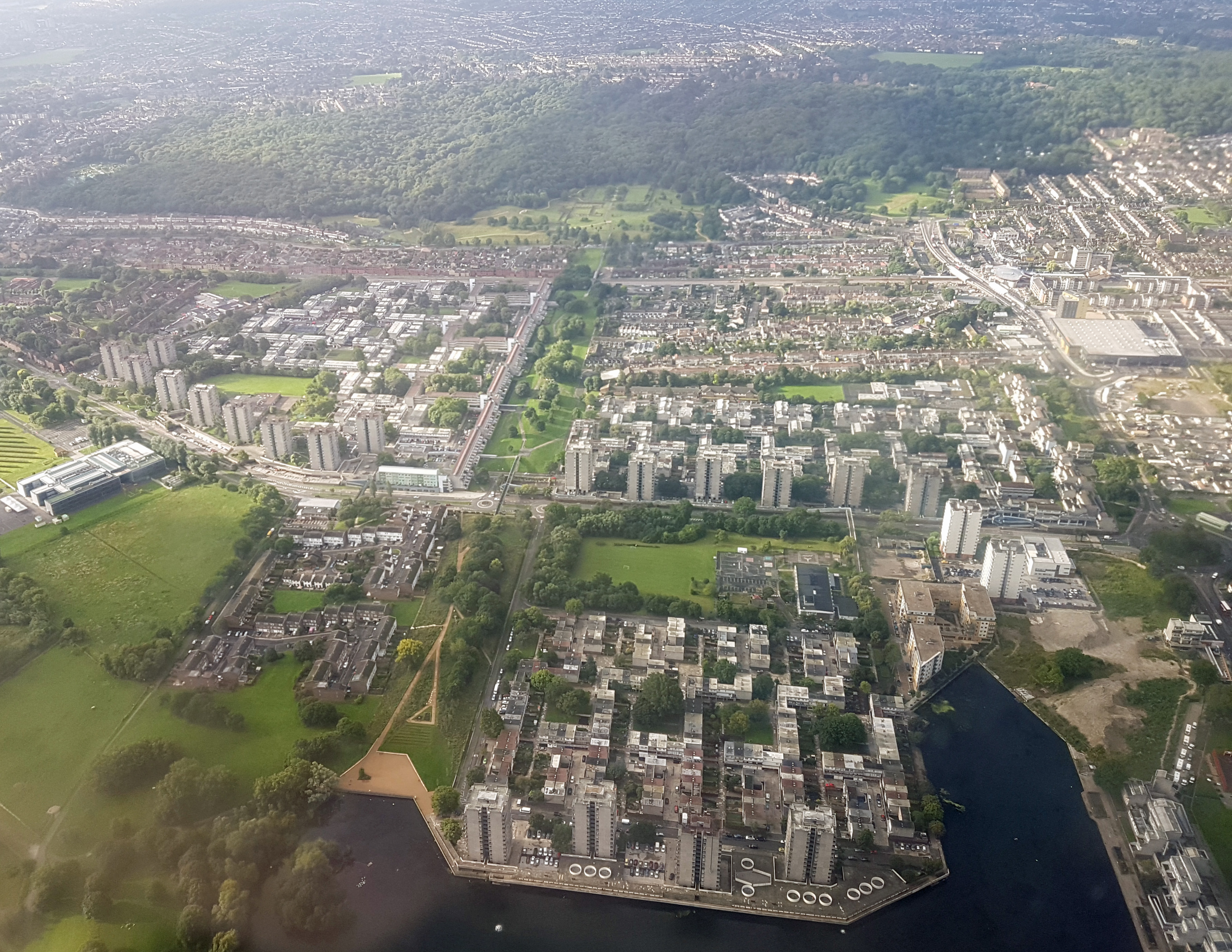 Aerial view of Thamesmead and Abbey Wood, south-east London, shortly before landing at London City Airport.